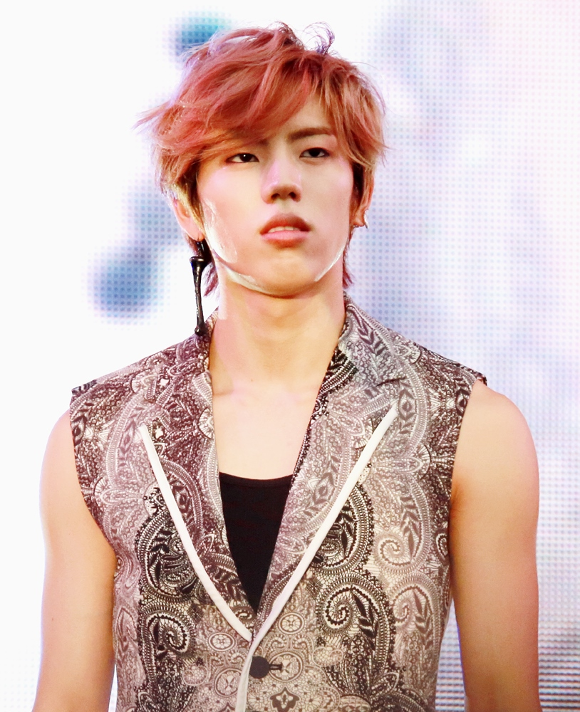 Jang Dong-woo at Infinite Japan Special Event on May 18, 2013.